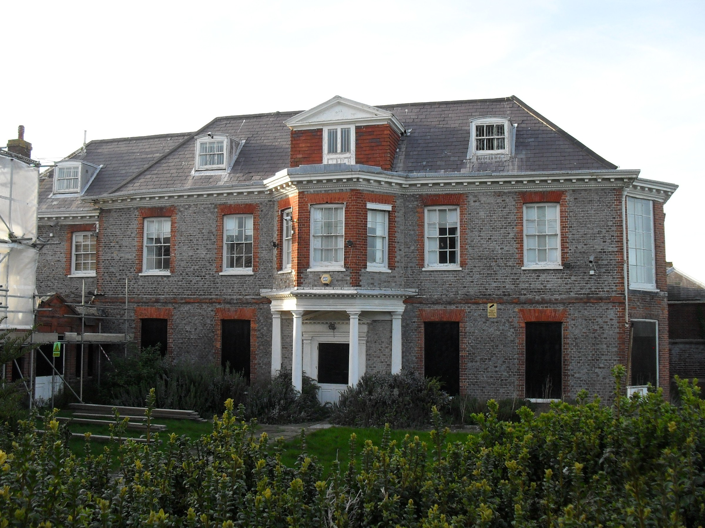 Manor House (former Towner Art Gallery), Borough Lane, Old Town, Eastbourne, East Sussex, England. Listed at Grade II by English Heritage (NHLE Code 1043667)